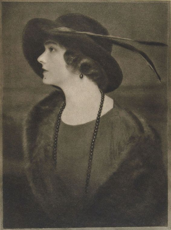 Photograph from The Book of Fair Women by E.O. Hoppé (1922)